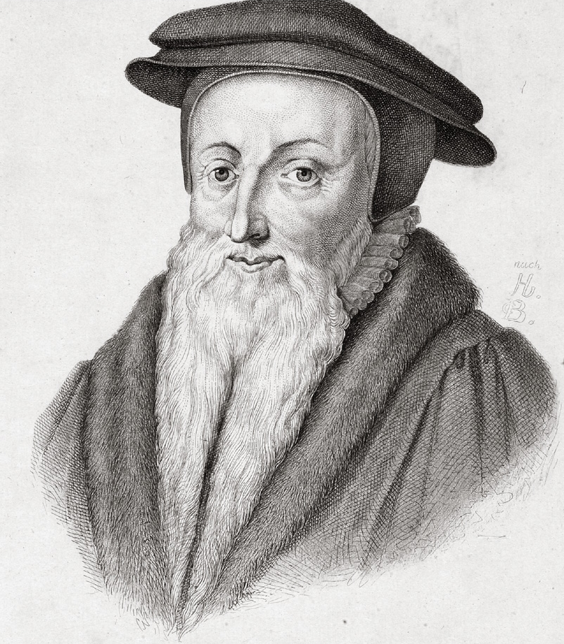 Theodore Beza